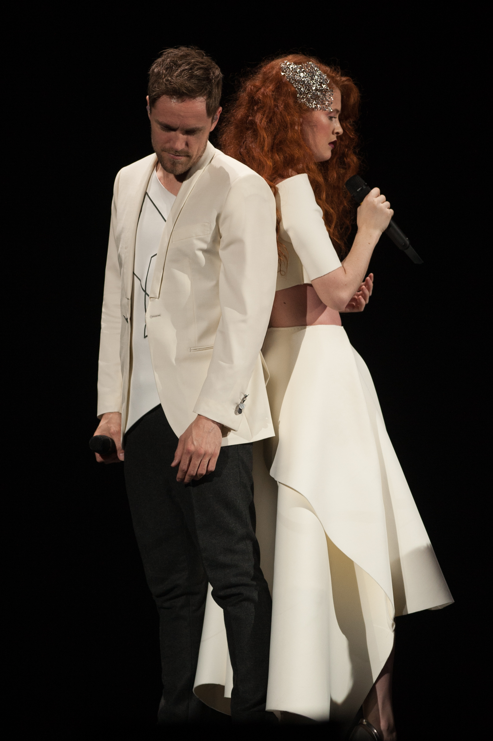 Eurovision Song Contest Vienna 2015: Mørland & Debrah Scarlett